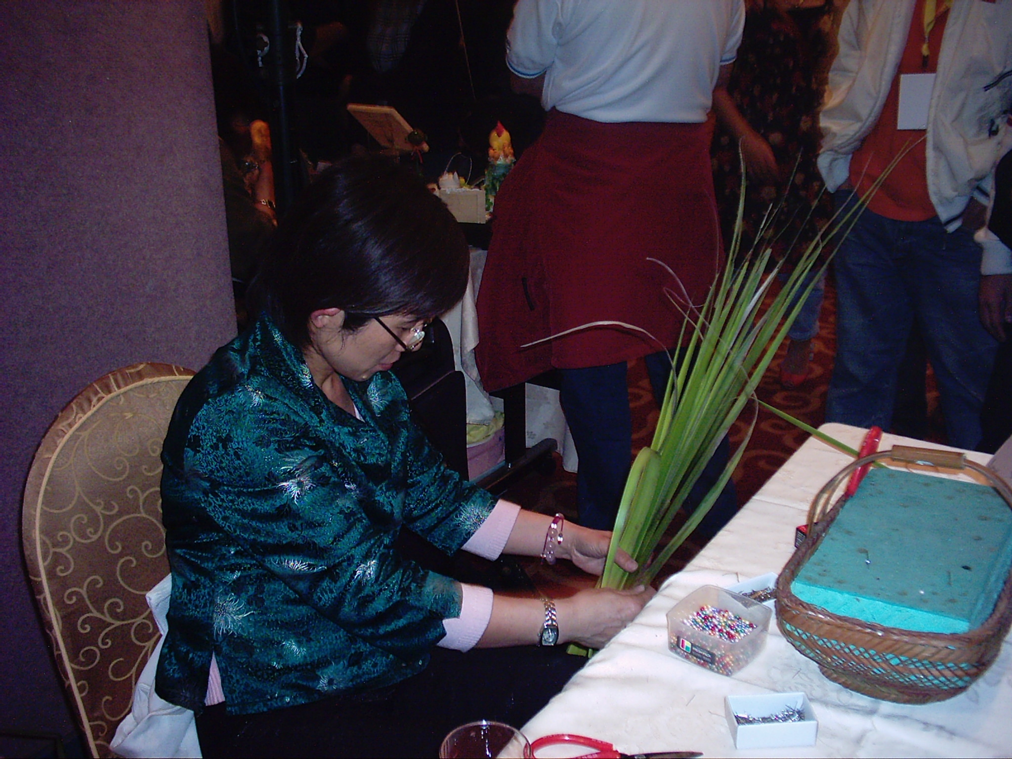 2006 Taipei Cycle Show: Taiwan Cycle Night.